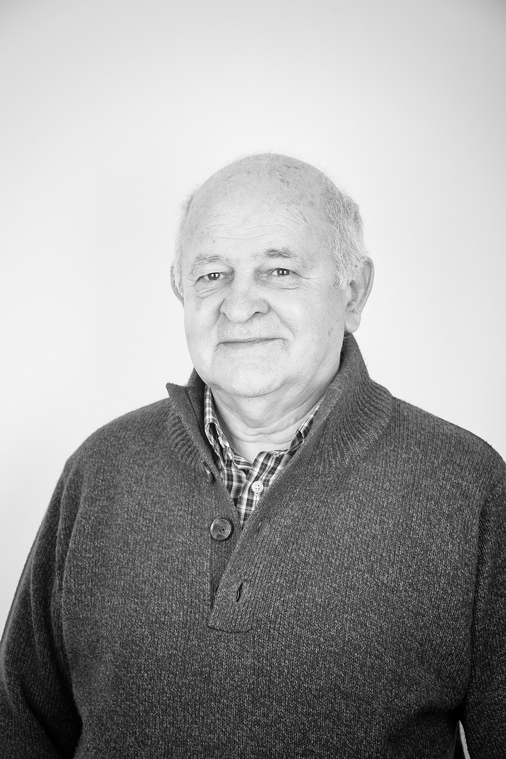 Ballet dancer and ballet choreographer of the Serbian National Theatre Srpski (latinica): Baletski igrač i koreograf Srpskog narodnog pozorišta Српски (ћирилица): Балетски играч и кореограф Српског народног позоришта